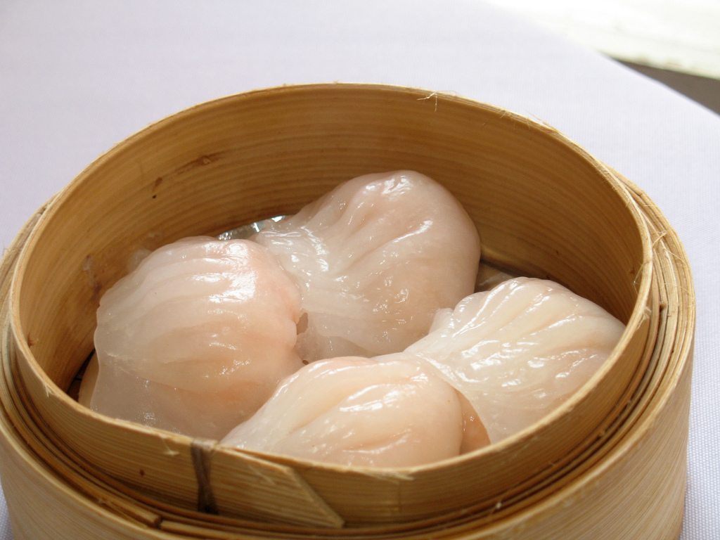 蝦餃, a kind of dumplings with shrimps.